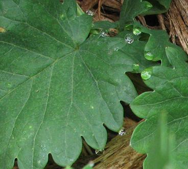 This photo was taken at St.Andrew's-Sewanee School.